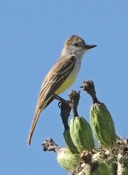 An Ash-throated Flycatcher in Tuscon, Arizona, USA.